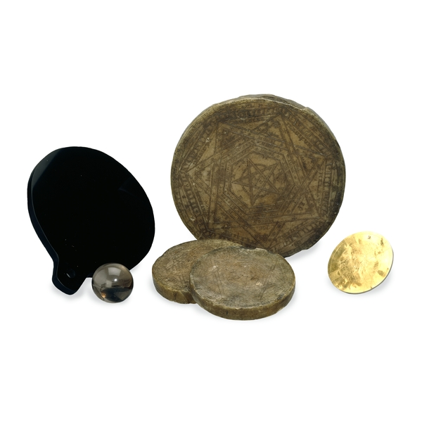 Dr Dee's Magic P&E MLA 1942,5-6,1 (gold disc);P&E MLA OA 232 (quartz sphere);P&E MLA OA 105-7 (wax discs);P&E MLA 1966,10-1,1 (mirror), AN37447001